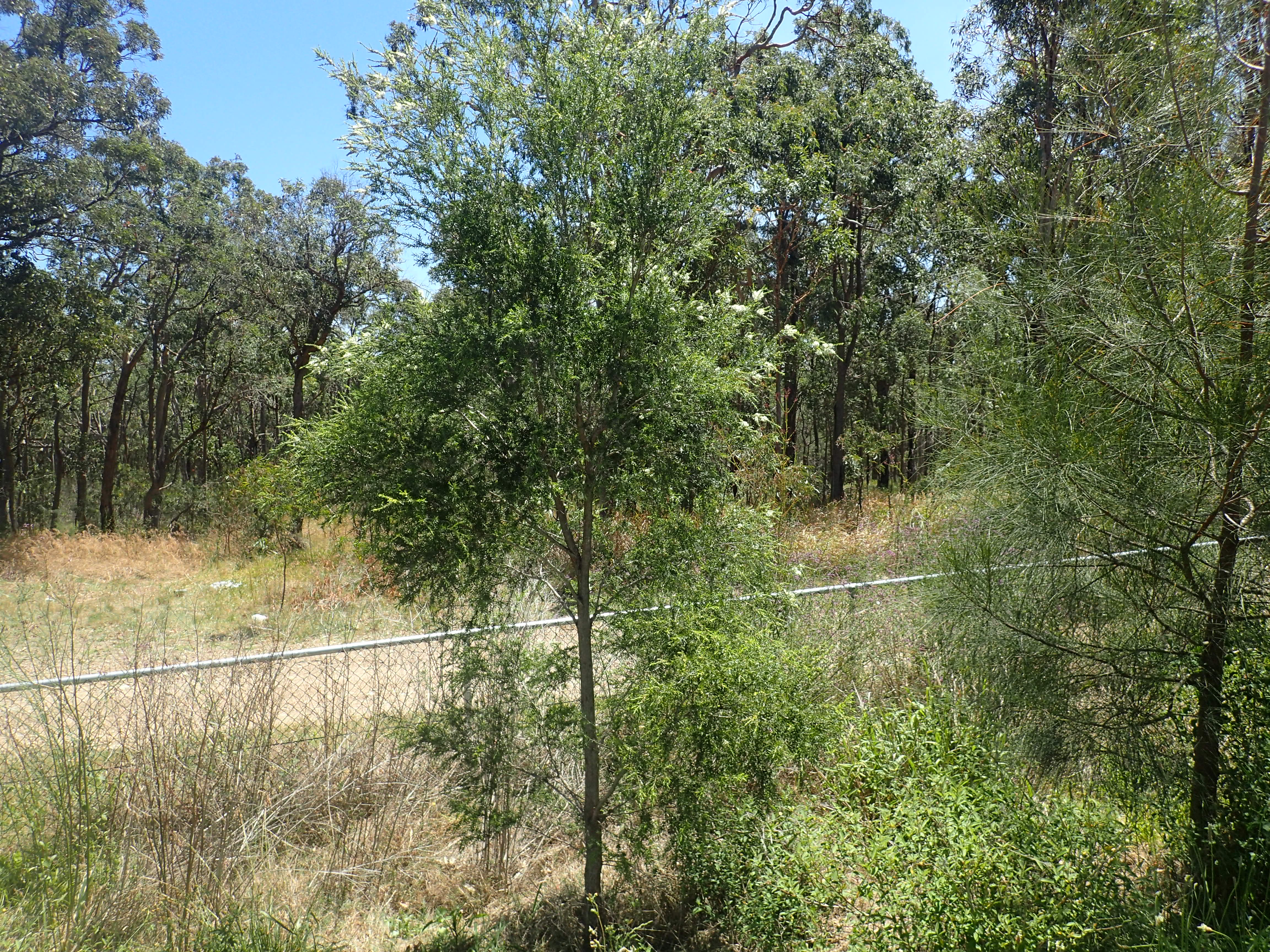 Melaleuca styphelioides growing near Newcastle